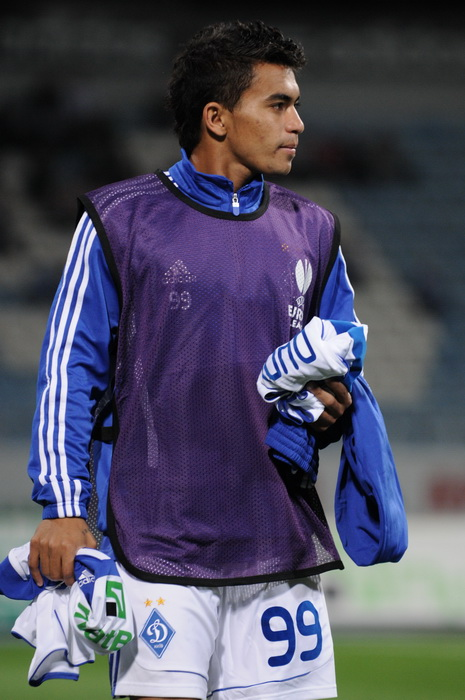 Dudu player of Brazil and Dynamo Kiev